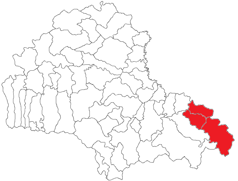 Buzaul Ardelean region in Brasov County, Romania